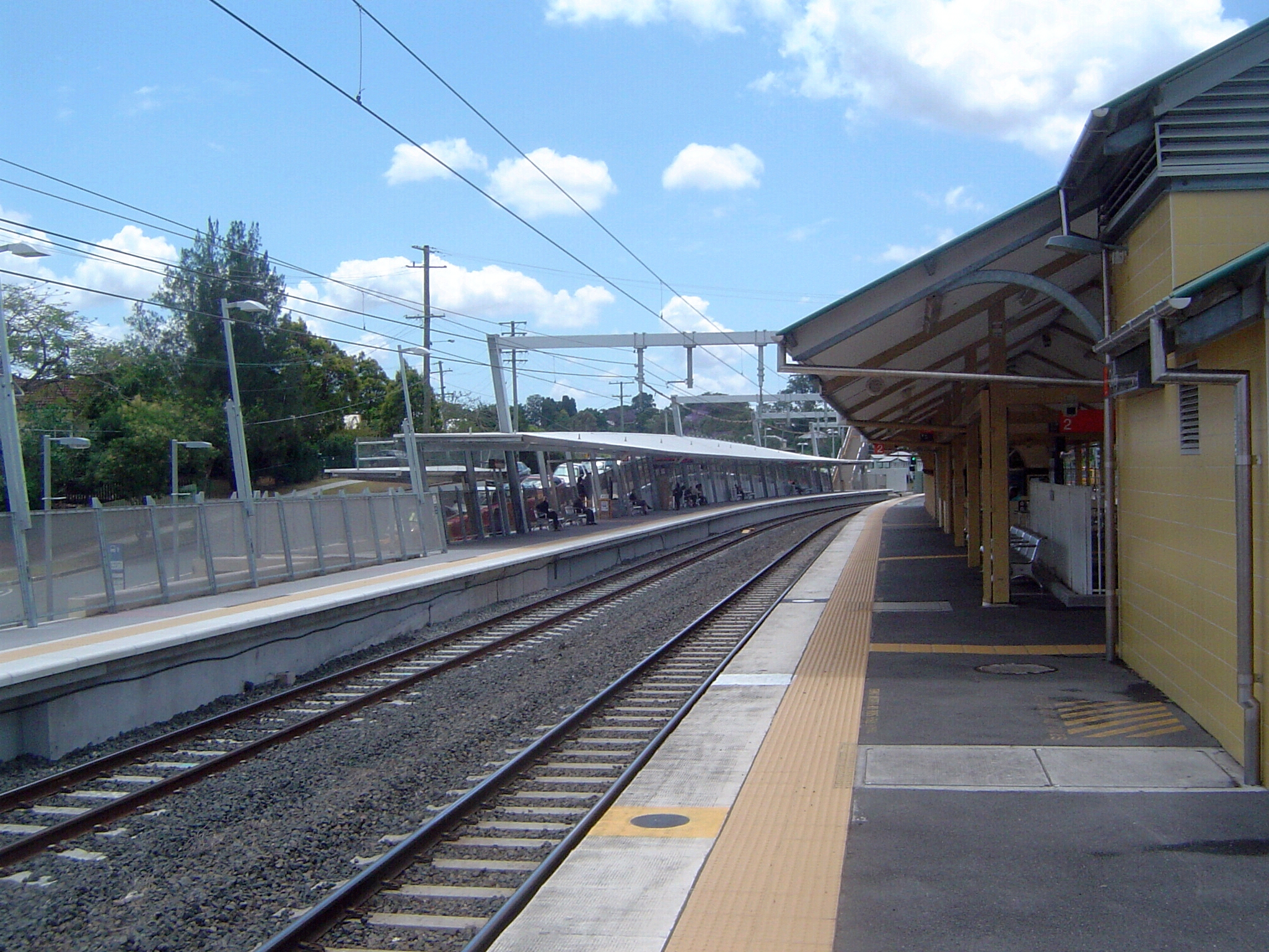 Photograph of Platform 3 at Oxley Railway station, Brisbane, Queensland, Australia